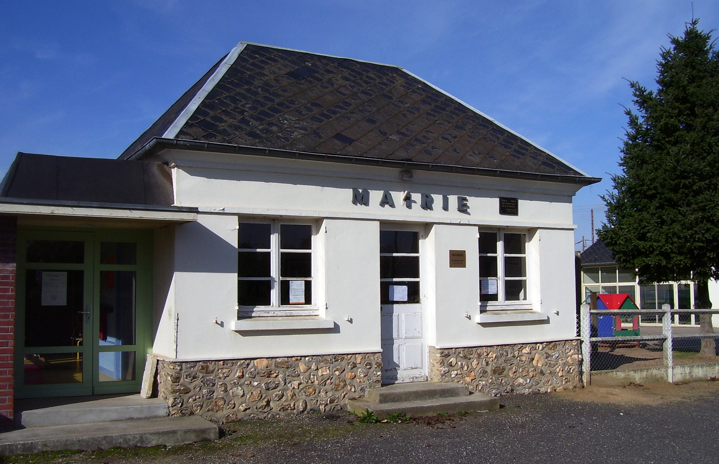 Town hall of Neuville-sur-Authou in the département Eure in the region Haute-Normandie in France.